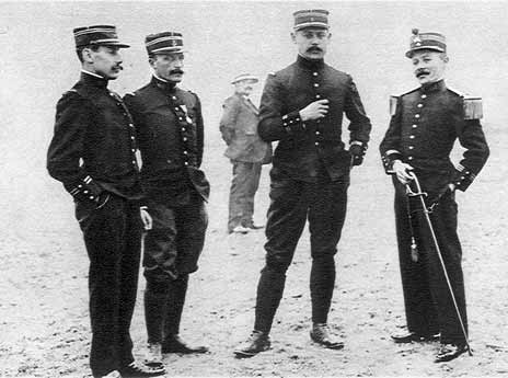 Four pilots pioneers from French aviation